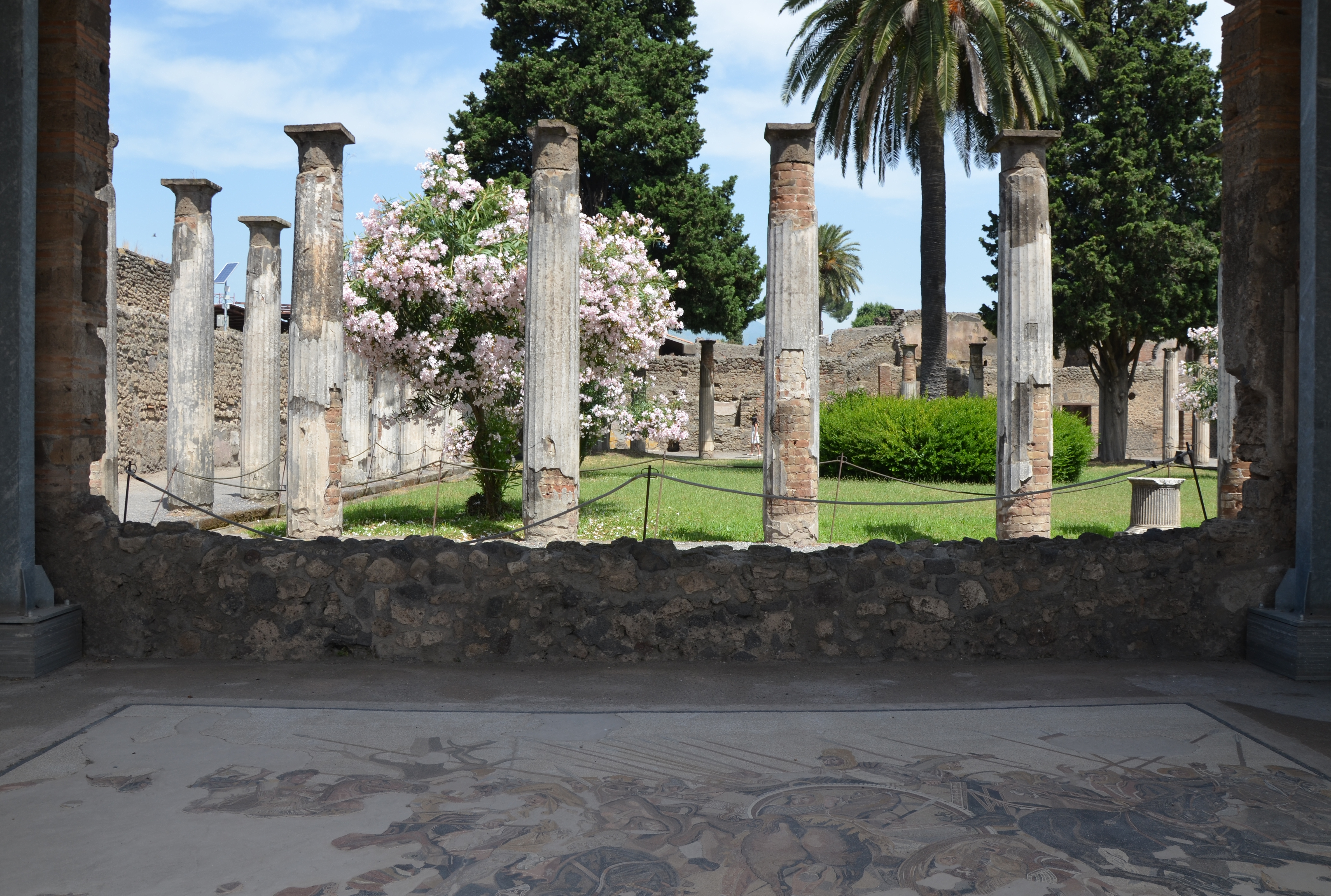 The mosaic is a reproduction of a painting made either in the lifetime of Alexander, or soon after his death, possibly by Philoxenus or Eretria. The battle is perhaps that at Issus. The left side of the picture is only partly preserved.